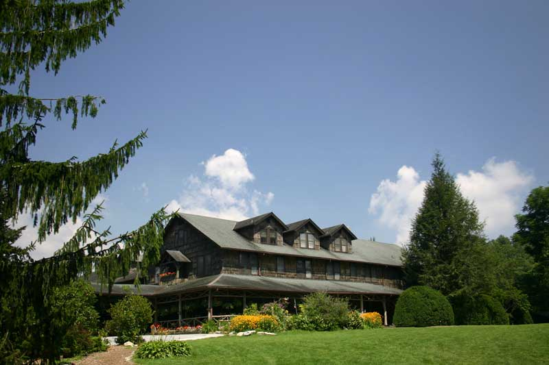 The High Hampton Inn near Cashiers, North Carolina on NC 107. It was built in 1933.